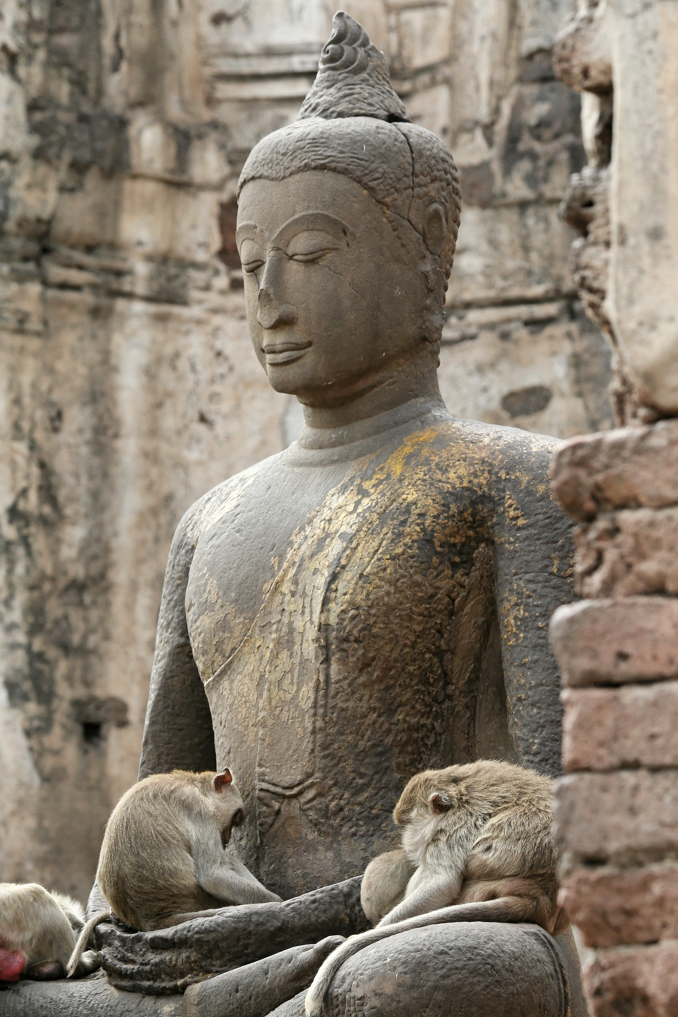 Phra Prang Sam Yod, Lopburi, Thailand